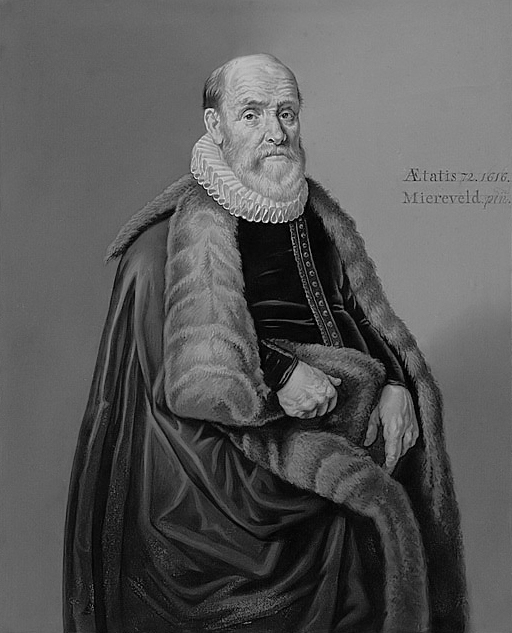 Dr. Helias (Elias) van Oldenbarnevelt, raad en pensionaris van Rotterdam. inscribed c.r.: AEtatis 72. 1616 / Miereveld pin.